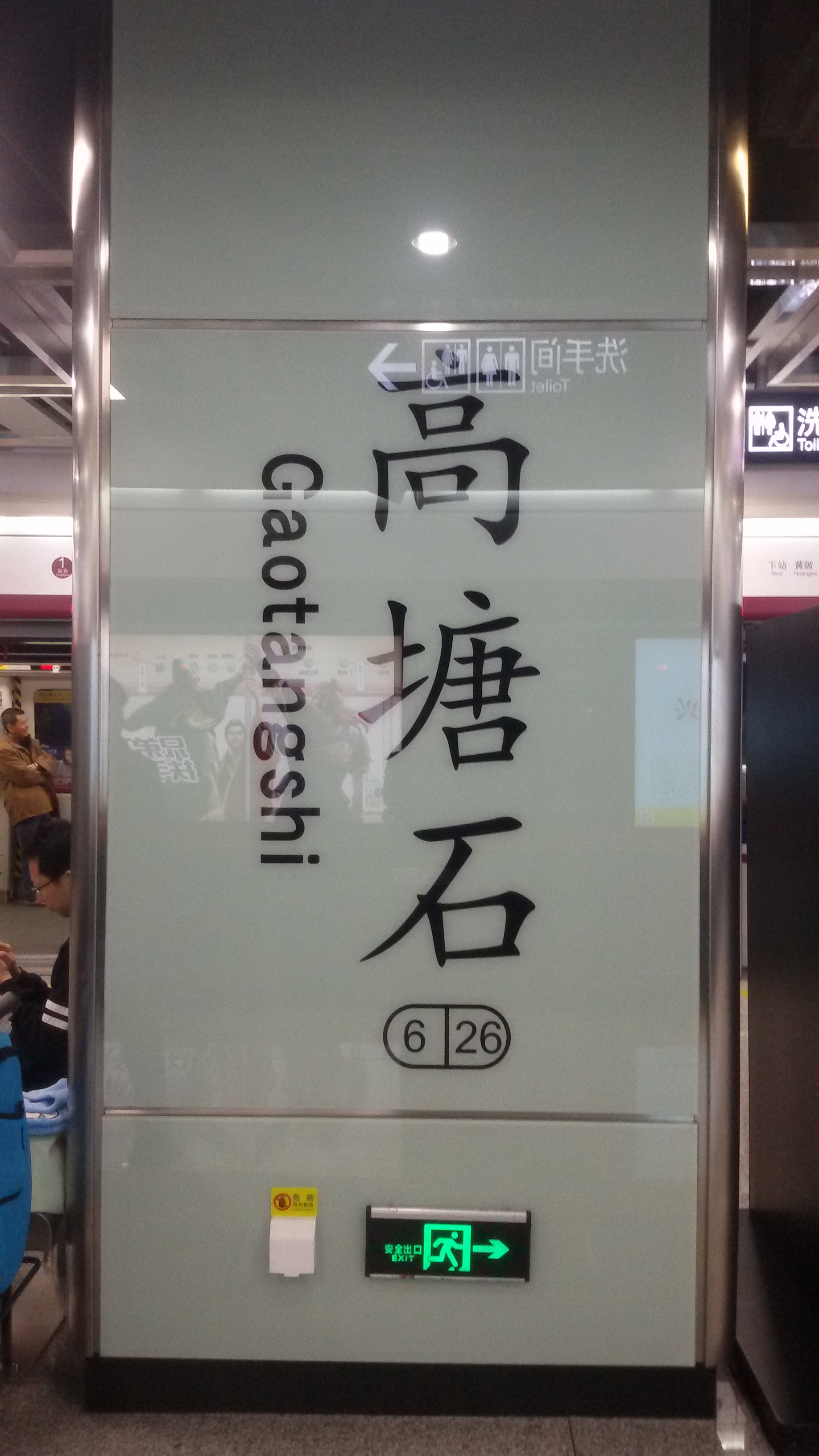 WORD on PILLAR for Gaotangshi Station in Guangzhou Metro